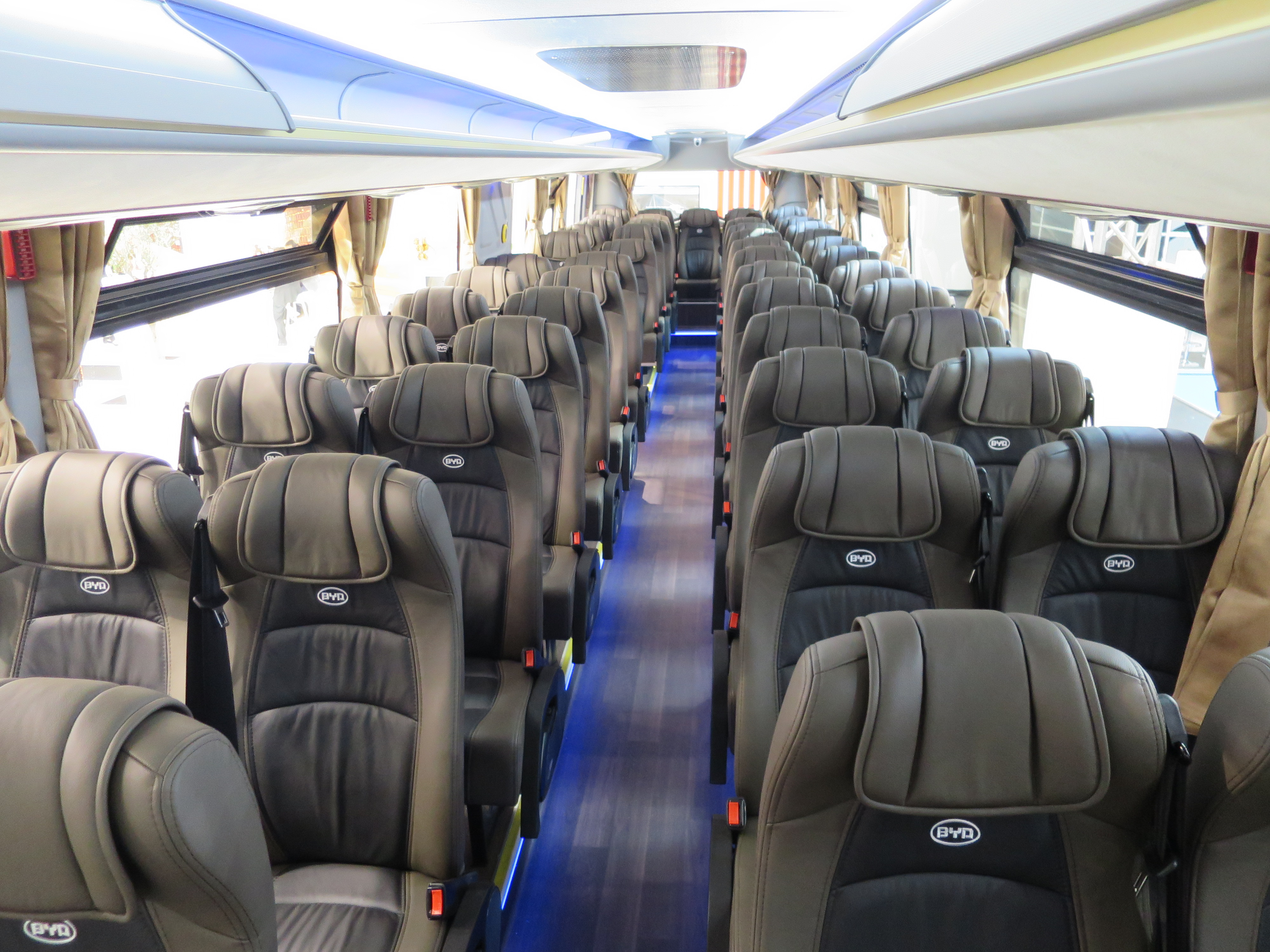 The making of this document was supported by Wikimedia Polska Association, within Wikigrant no. WG 2016-35. BYD C9 electric